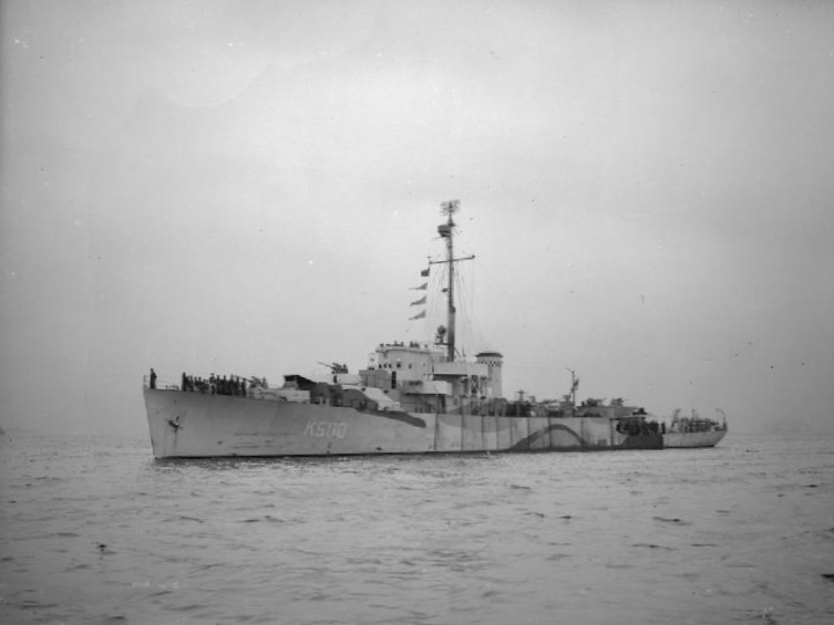 Photograph of British Colony class frigate HMS Anguilla.